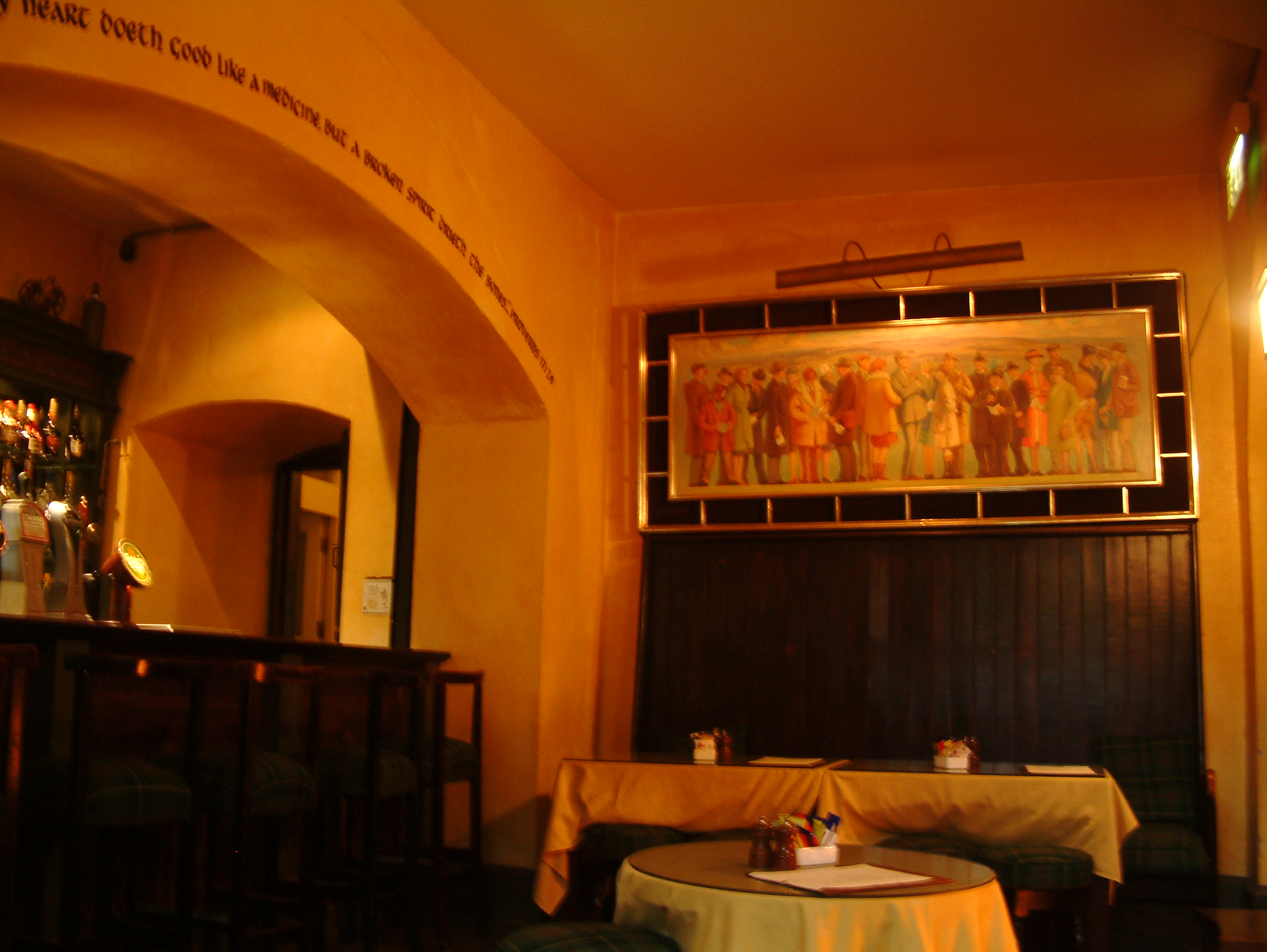 The bar at the Cashel Palace Hotel, Cashel, Ireland